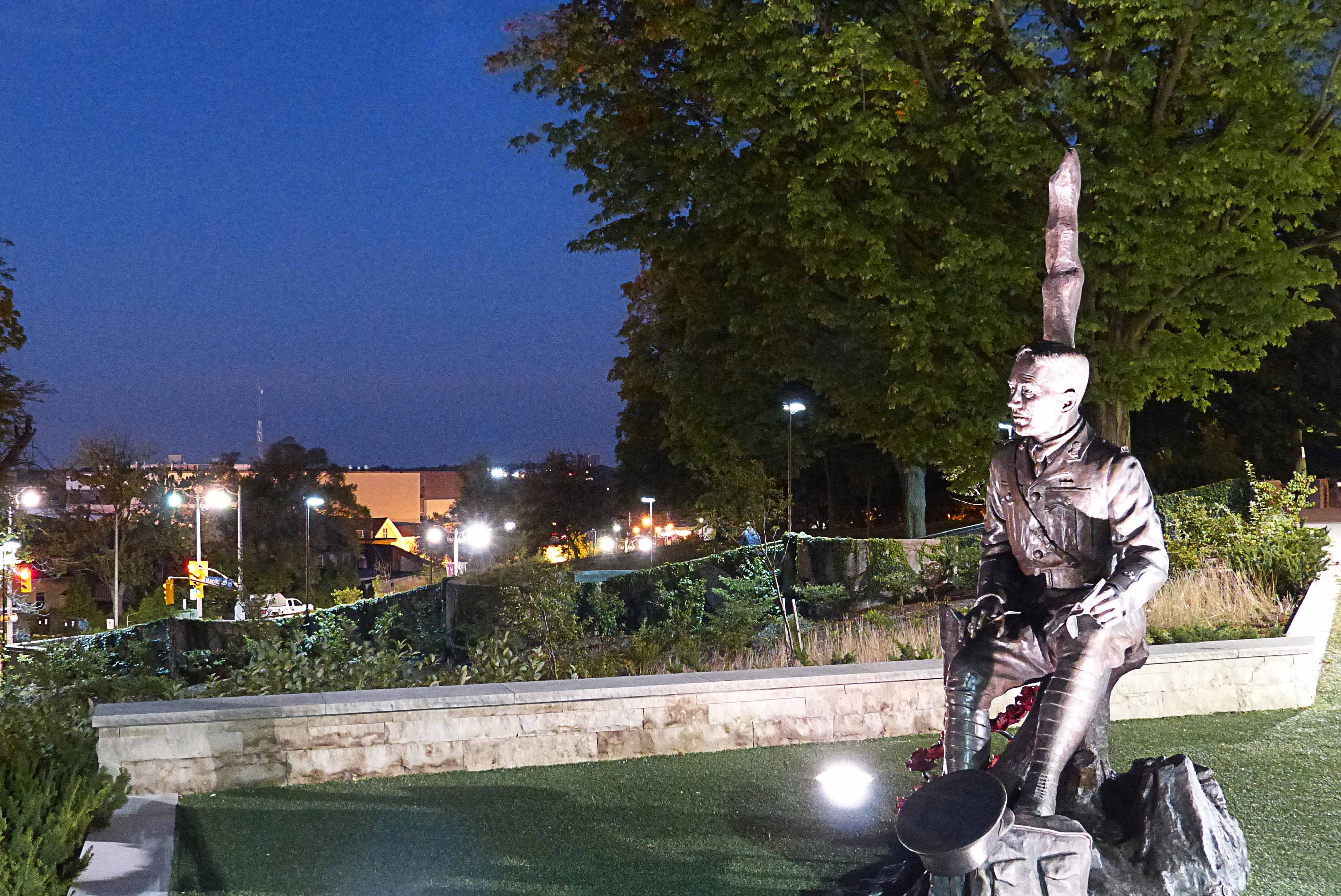 "Remember Flanders", by Ruth Abernethy. This is the statue of John McCrae in front of the Guelph Civic Museum, Guelph, Ontario, Canada. He's depicted with his notebook and pen in his hands, and his medical bag at his feet. He's looking out on downtown Guelph, and Norfolk Street can be seen at the bottom of the hill. McCrae is the author of the poem "In Flanders Fields", and was born in Guelph